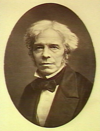 Michael Faraday. Photograph. Iconographic Collections